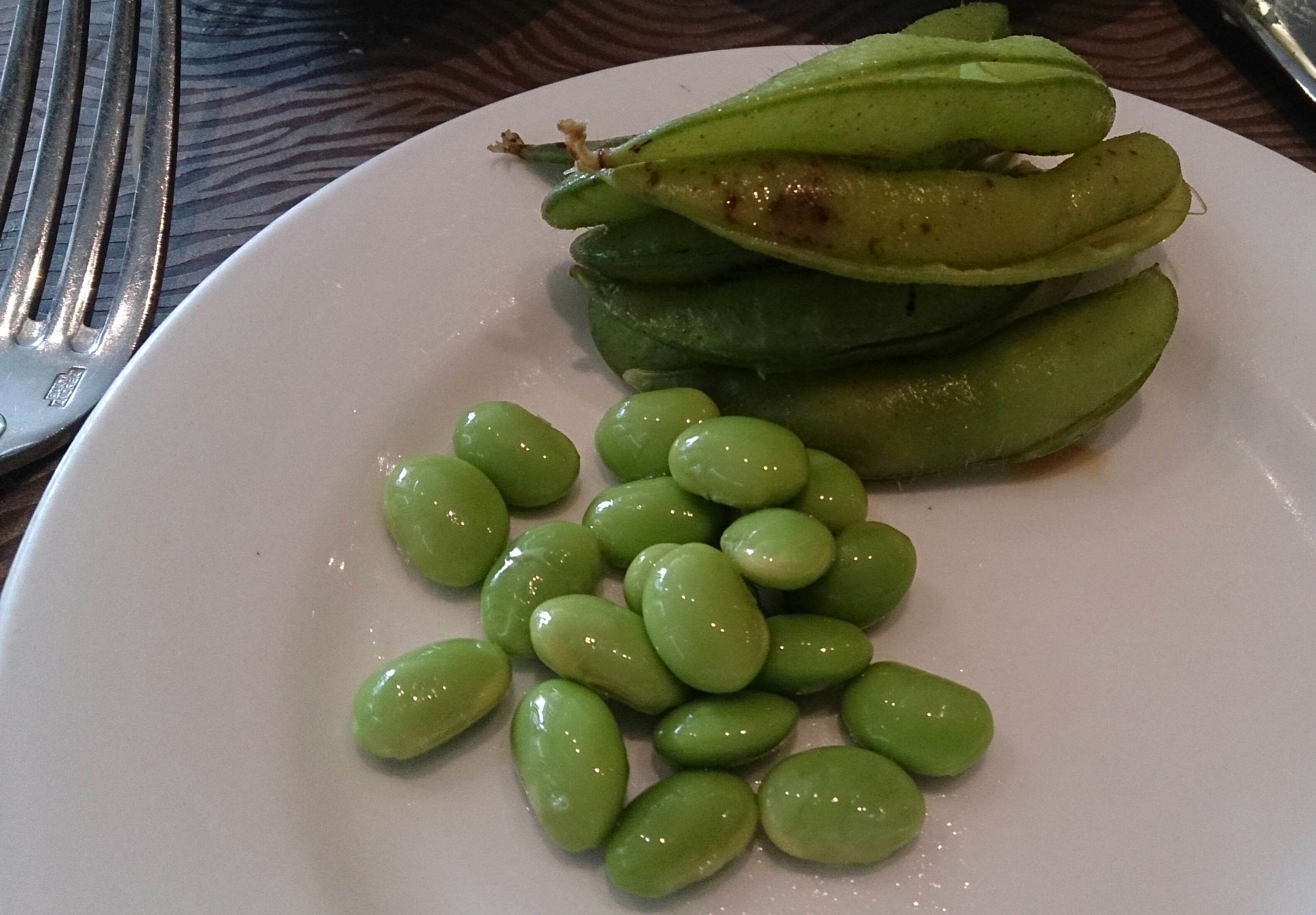 delicious soy beans